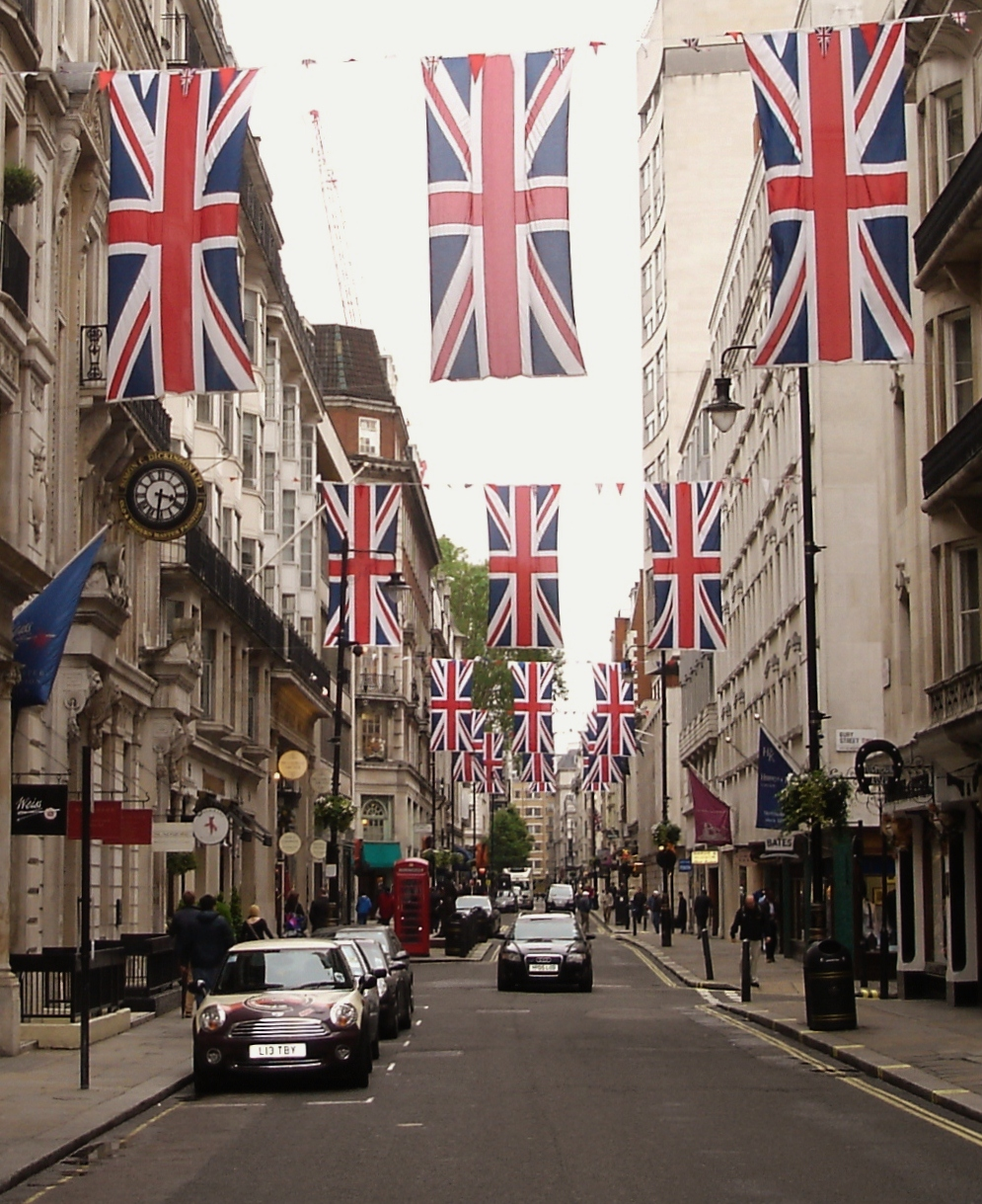 Jermyn Street bedecked with Union Flags for The Queen's Diamond Jubilee.